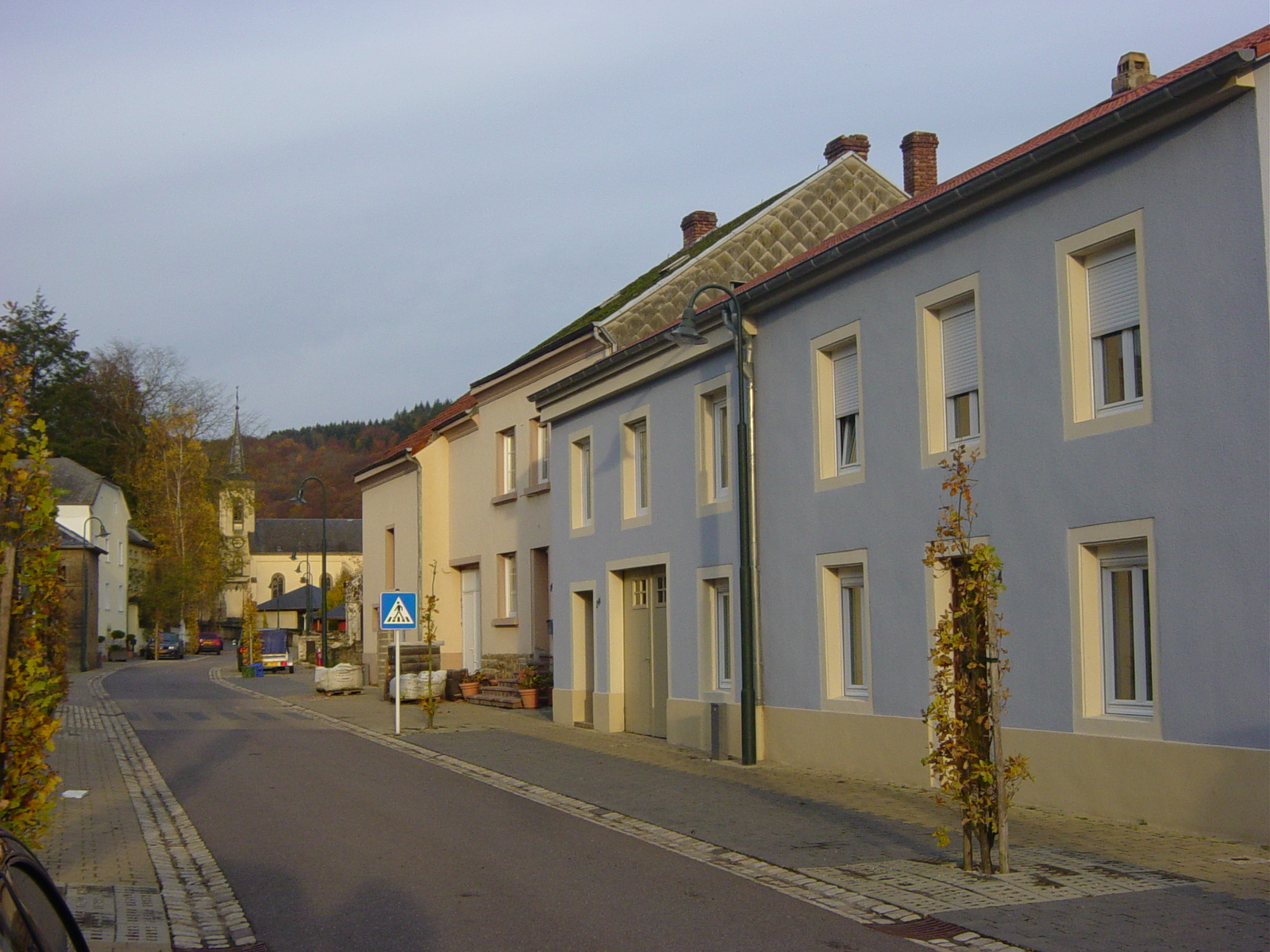 Born, Luxembourg - Centre of the village (Duerfstrooss).